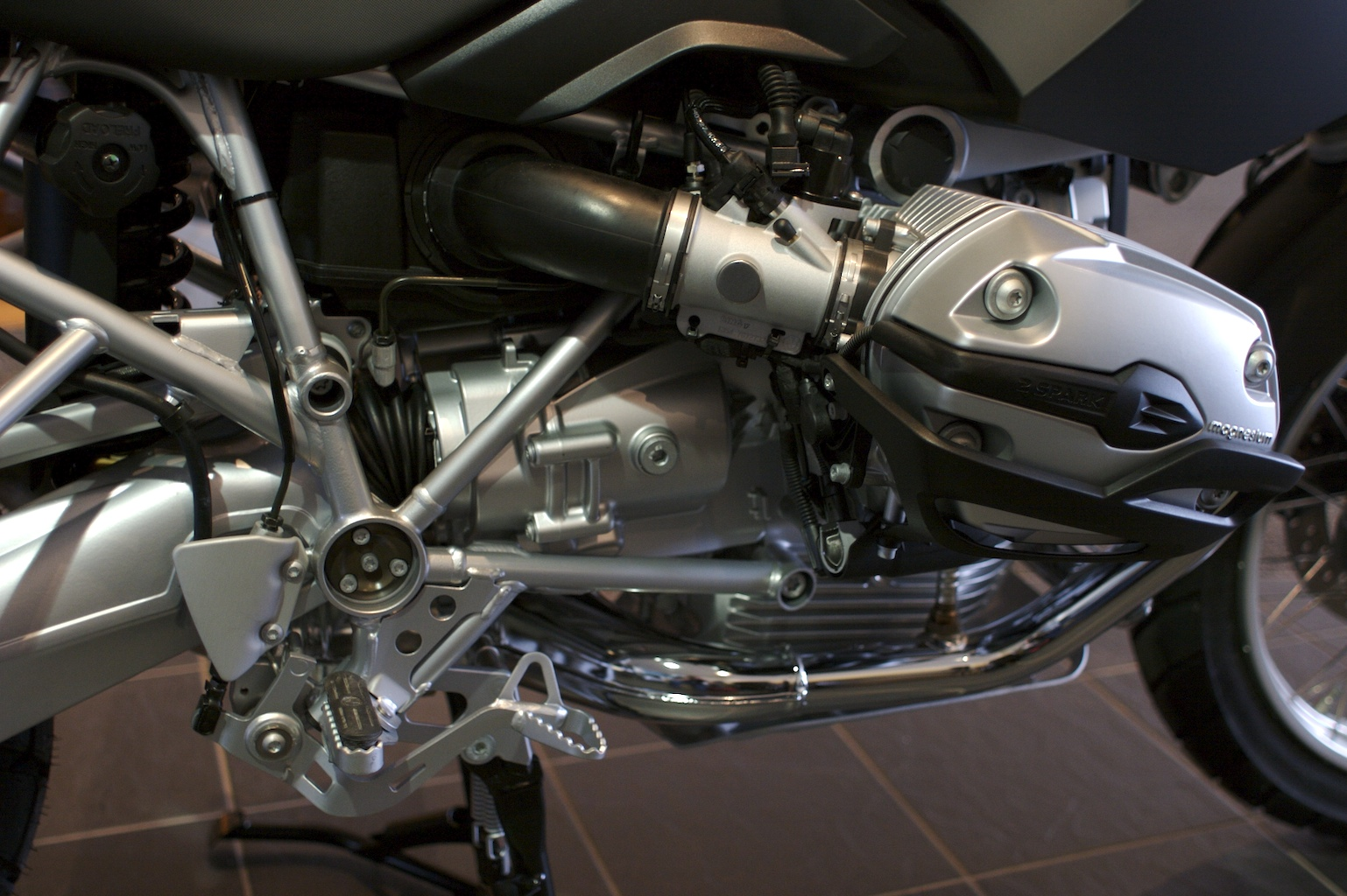 Closeup of BMW R1200GS and rear subframe